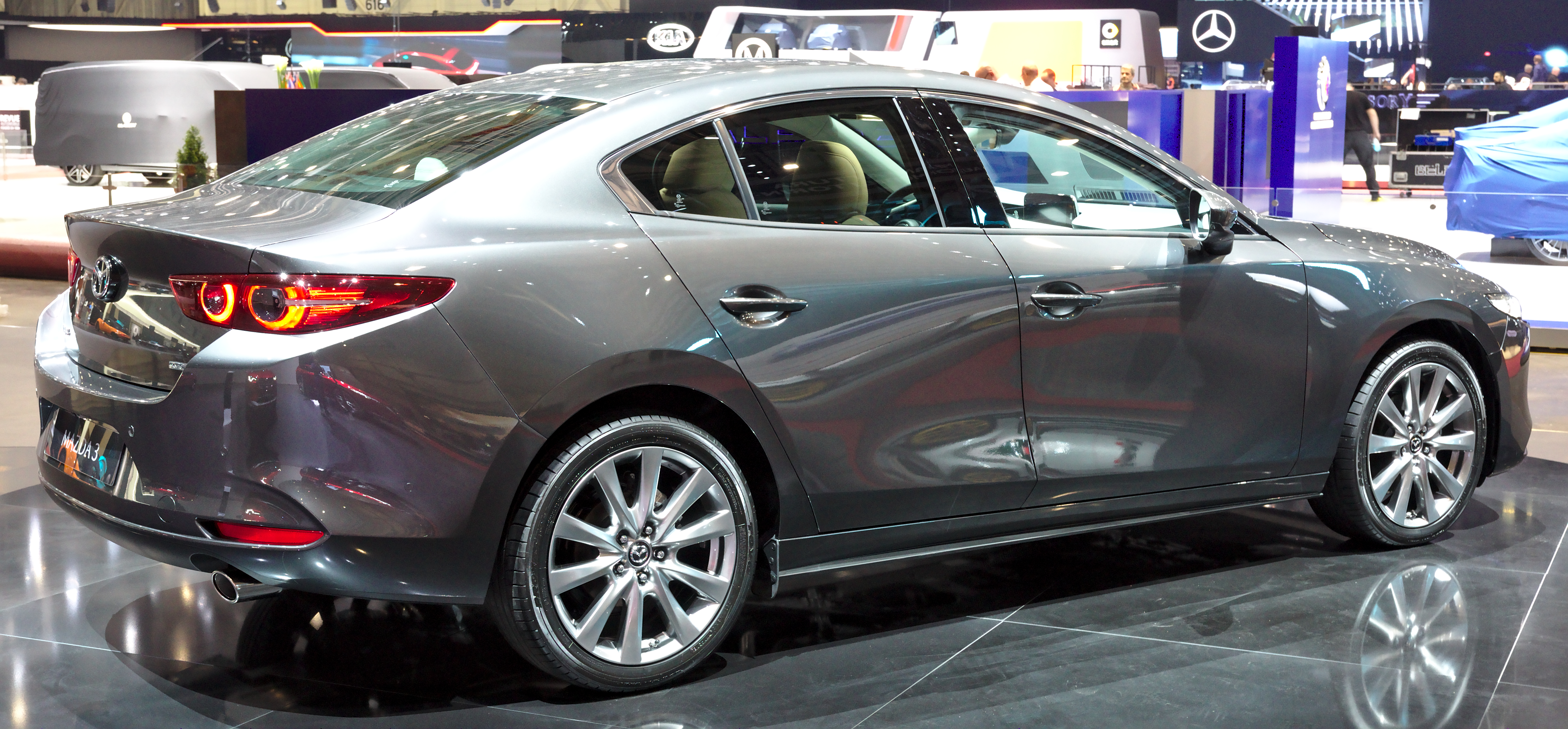 Mazda 3 Sedan at Geneva Motor Show 2019